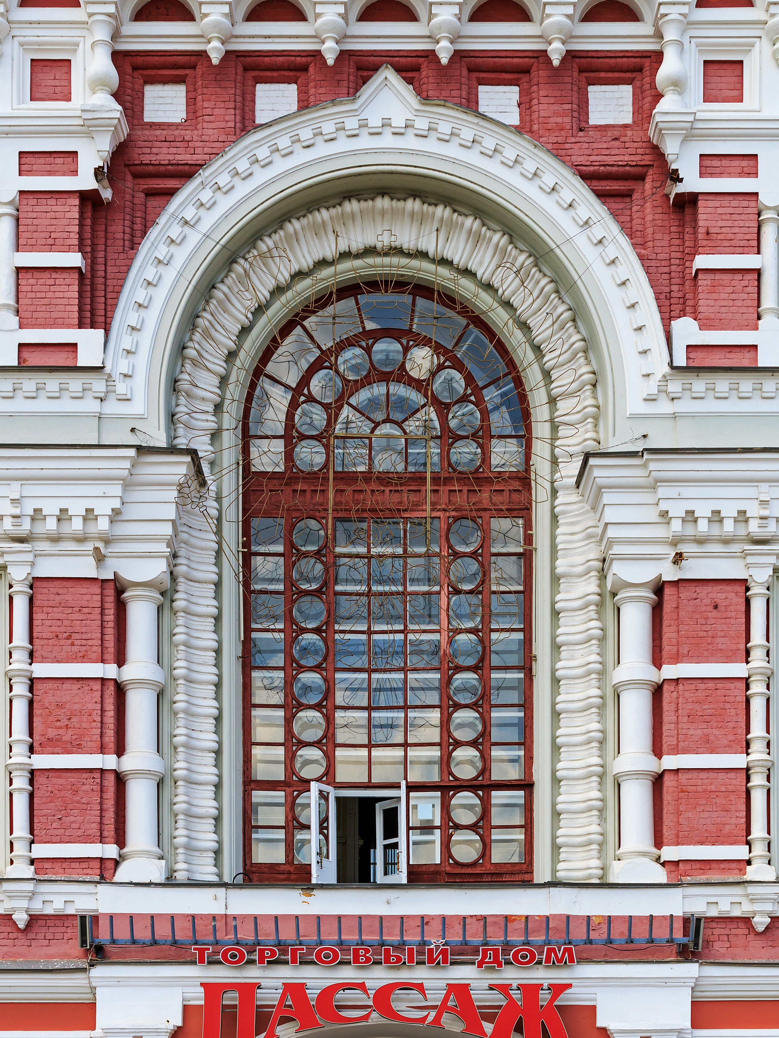 Main building of the Trade Fair in Nizhny Novgorod, Russia